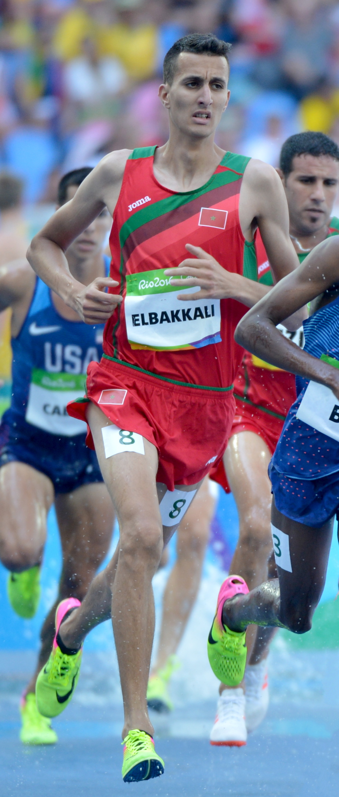 Soufiane El Bakkali in the men's 3,000-meter steeplechase on Aug. 17 at the 2016 Rio Olympic Games in Rio de Janeiro. U.S. Army photo by Tim Hipps, IMCOM Public Affairs #SoldierOlympians #ArmyOlympians #ArmyTeam #GoArmy #TeamUSA #ArmyStrong #RoadToRio